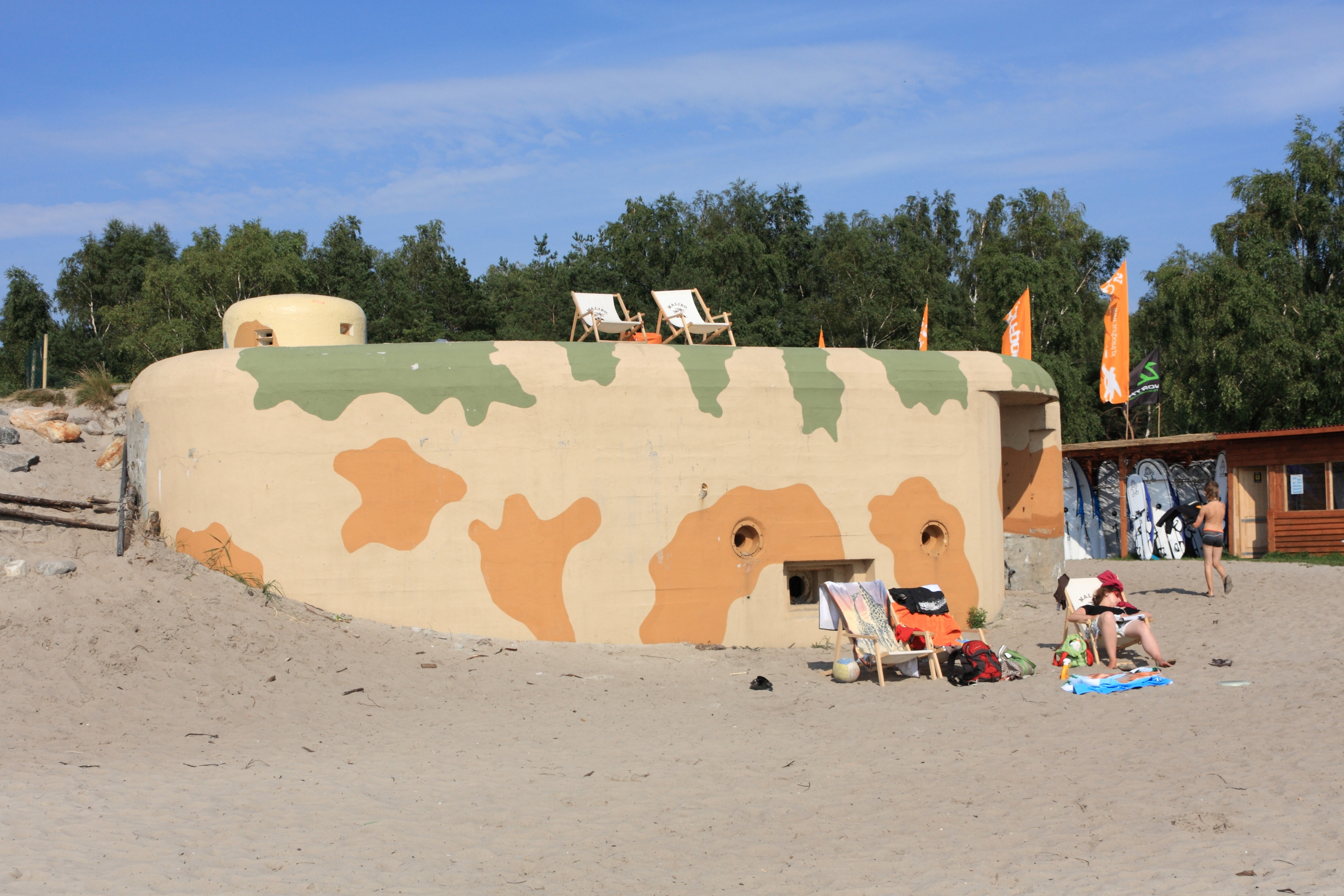 Bunker "Sokół" in Jastarnia, Hel peninsula, Poland. Currently the bunker lies within a camping and windsurfing site.